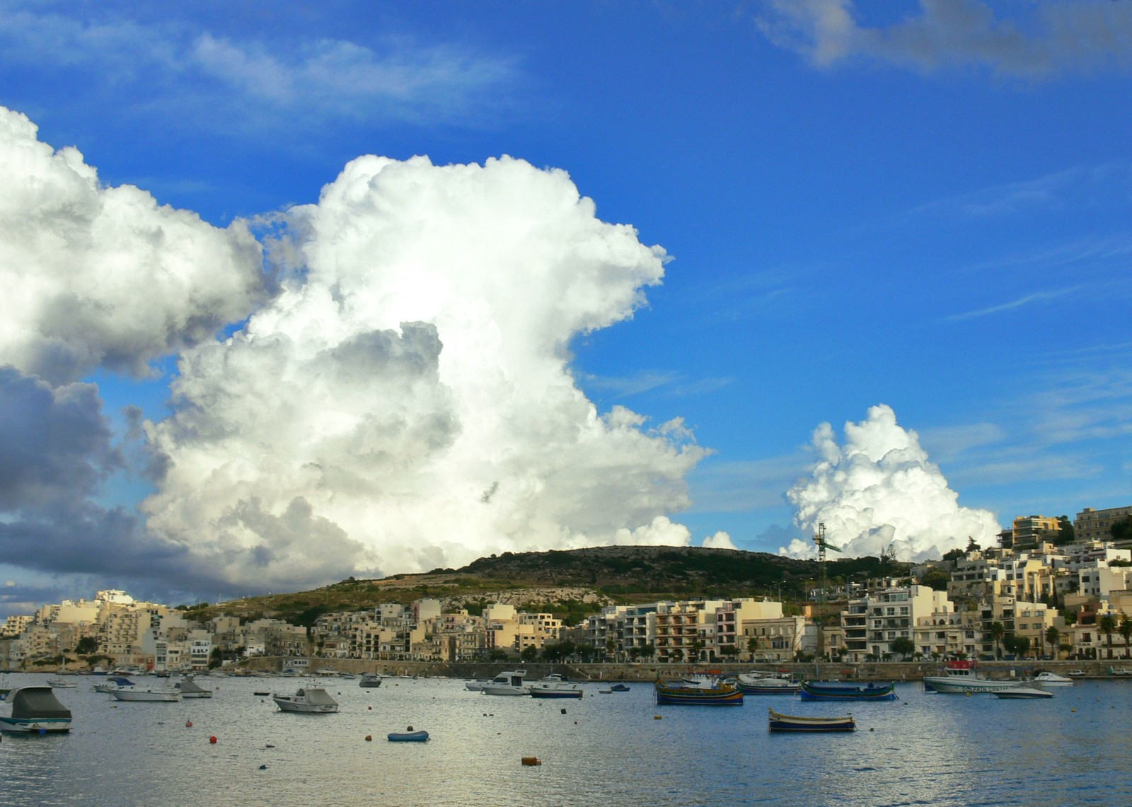 San Pawl il-Bahar (St. Paul's Bay) from Xemxija